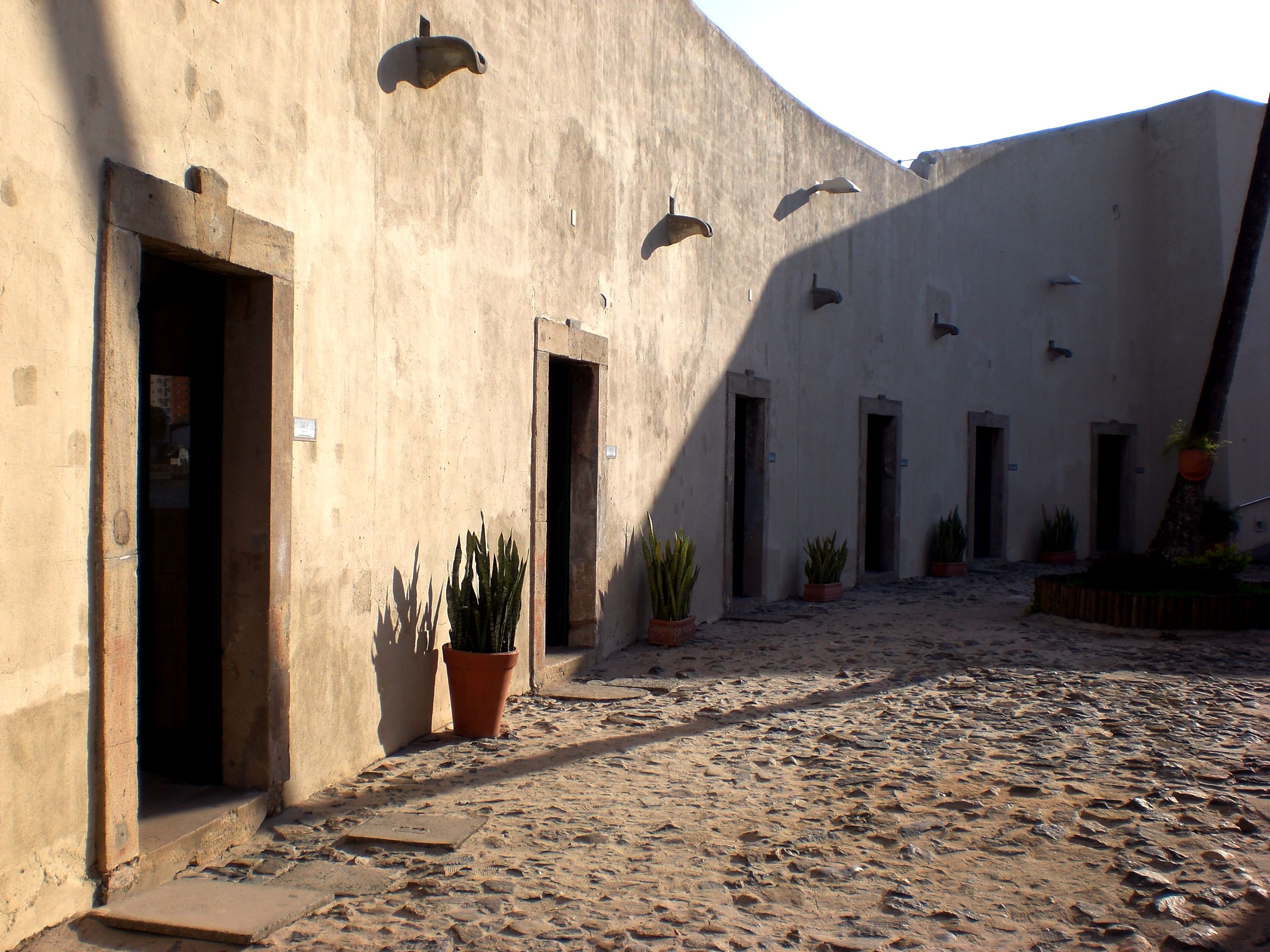 Inside the São Marcelo Fort, Salvador, Bahia, Brazil.